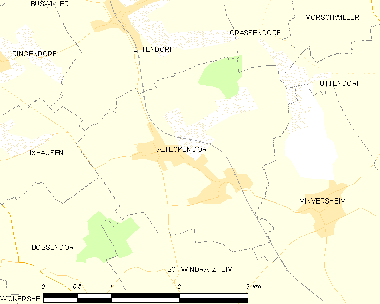 Map of French municipality